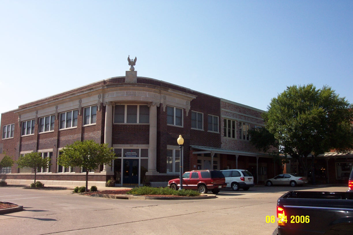 The former White Bank Building which anchors the northwest corner of the Historic Town Square in Lancaster, TX. On the left side of the building, different brick colors between first and second floor windows show where significant damage from the 1994 tornado was repaired. Photo taken by Lynnette Lakey Taff on August 24, 2006.